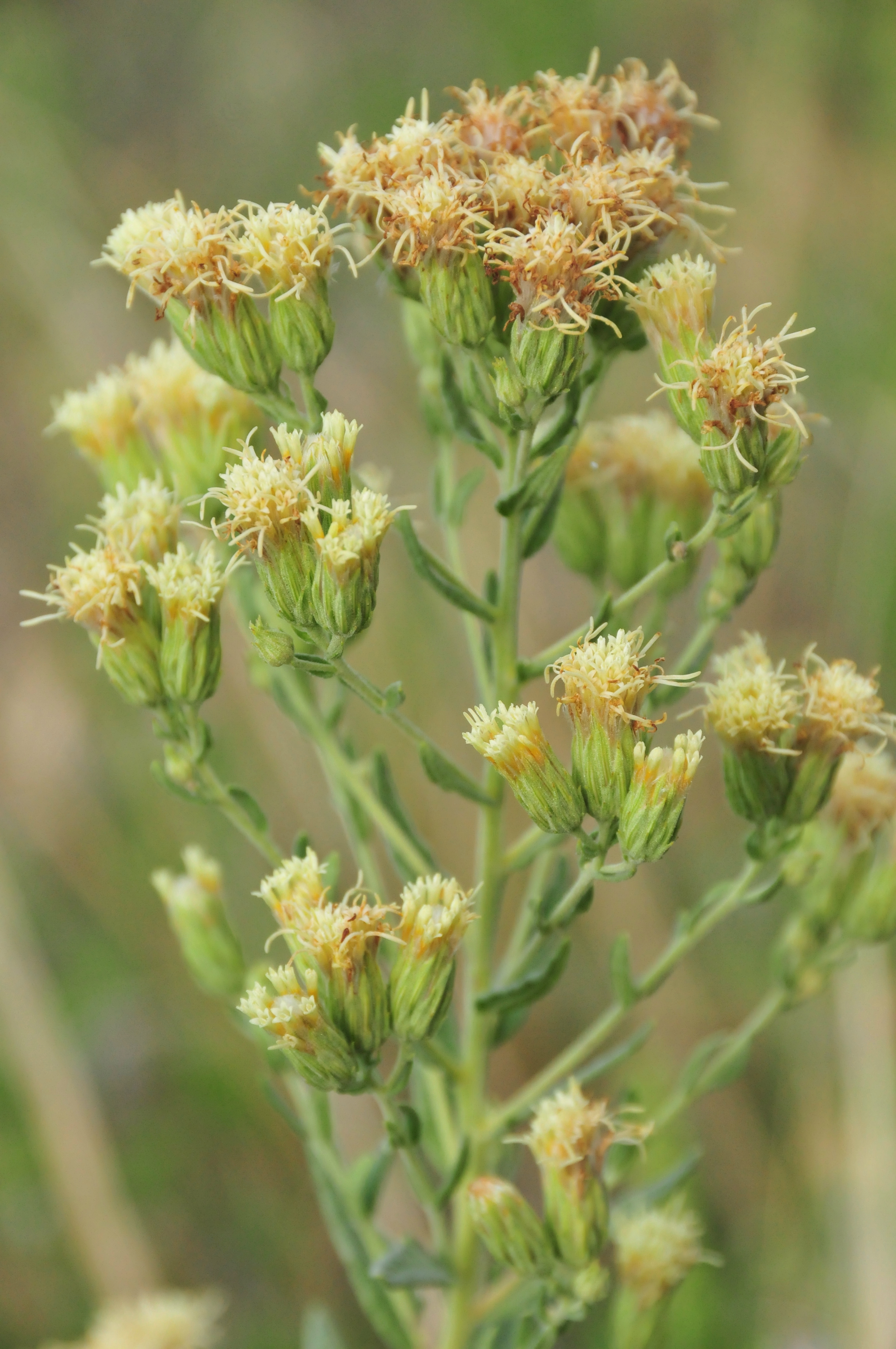 False Boneset (Kuhnia eupatorioides) in flower on Mixed Grass Prairie of Lacreek NWR. Not all wildflowers have showy colors. In this case, false bonset produces cream to ivory colored flowers. False boneset has one of the deepest root systems on the prairies, reaching over 17 feet into the soil. During severe droughts, it may be one of the only forbs to produce flowers. Photo: Tom Koerner/USFWS